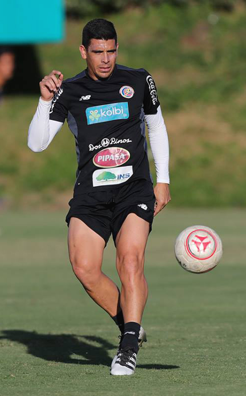 Johnny Acosta training